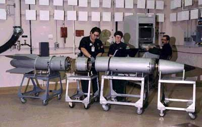 B-61 gravity bomb being disassembled in Pantex plant. The nuclear warhead is located in the section behind the nosecone.